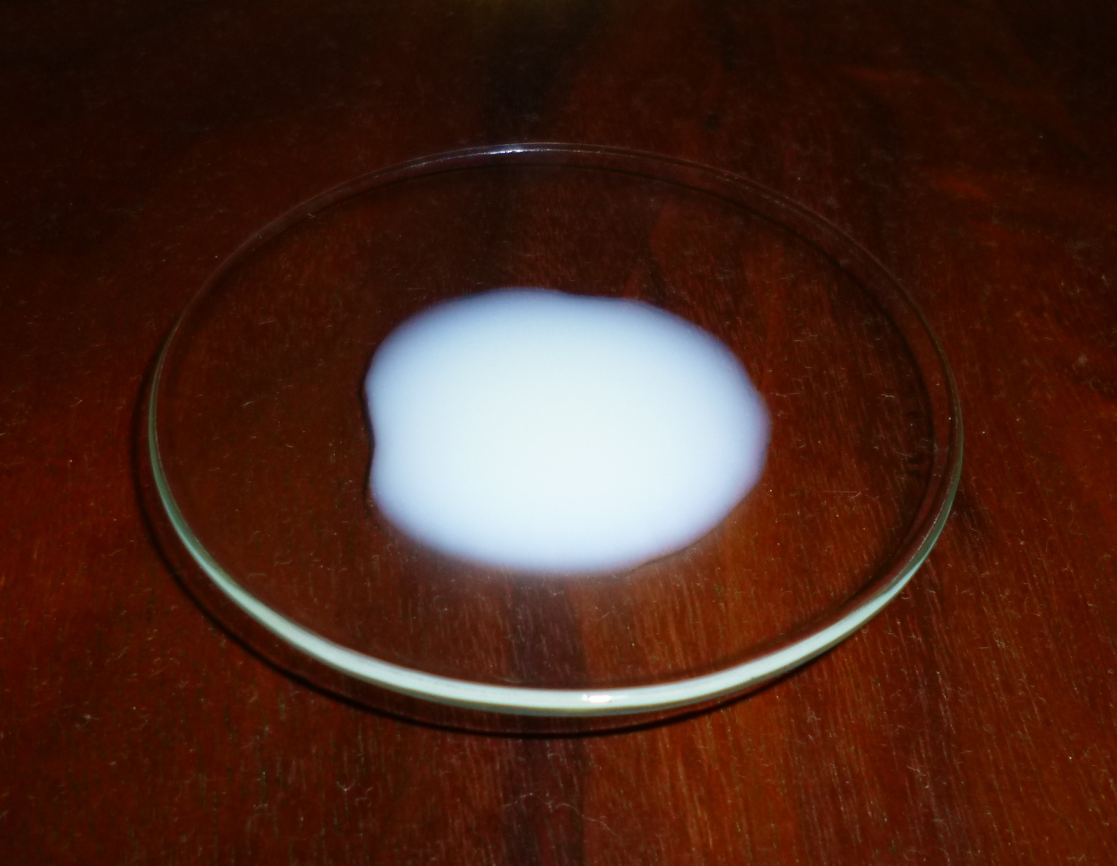 Human lymph, obtained after the thoracic duct injury.